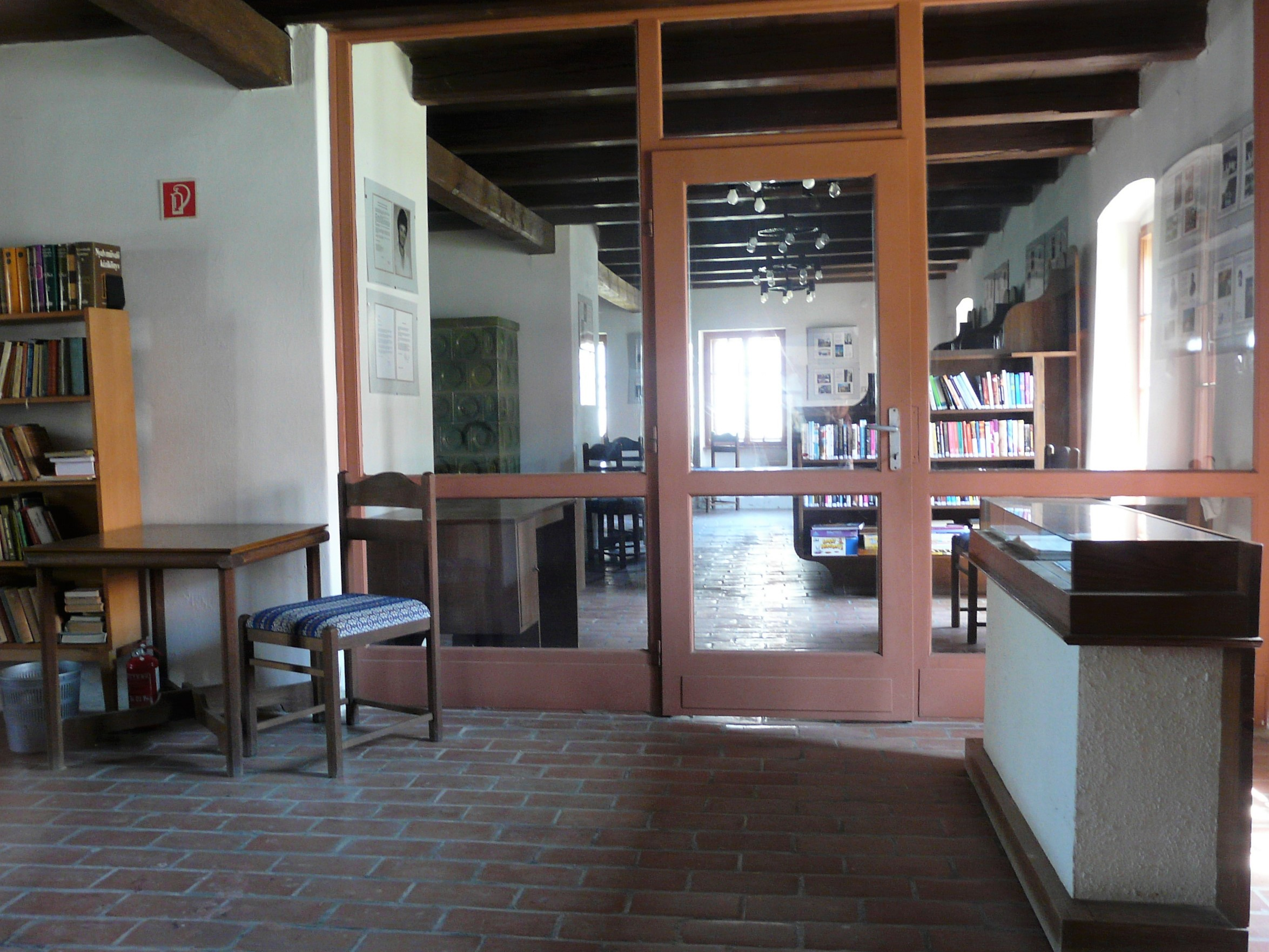 Library of the village Egyházashetye in the Memorial house of Dániel Berzsenyi